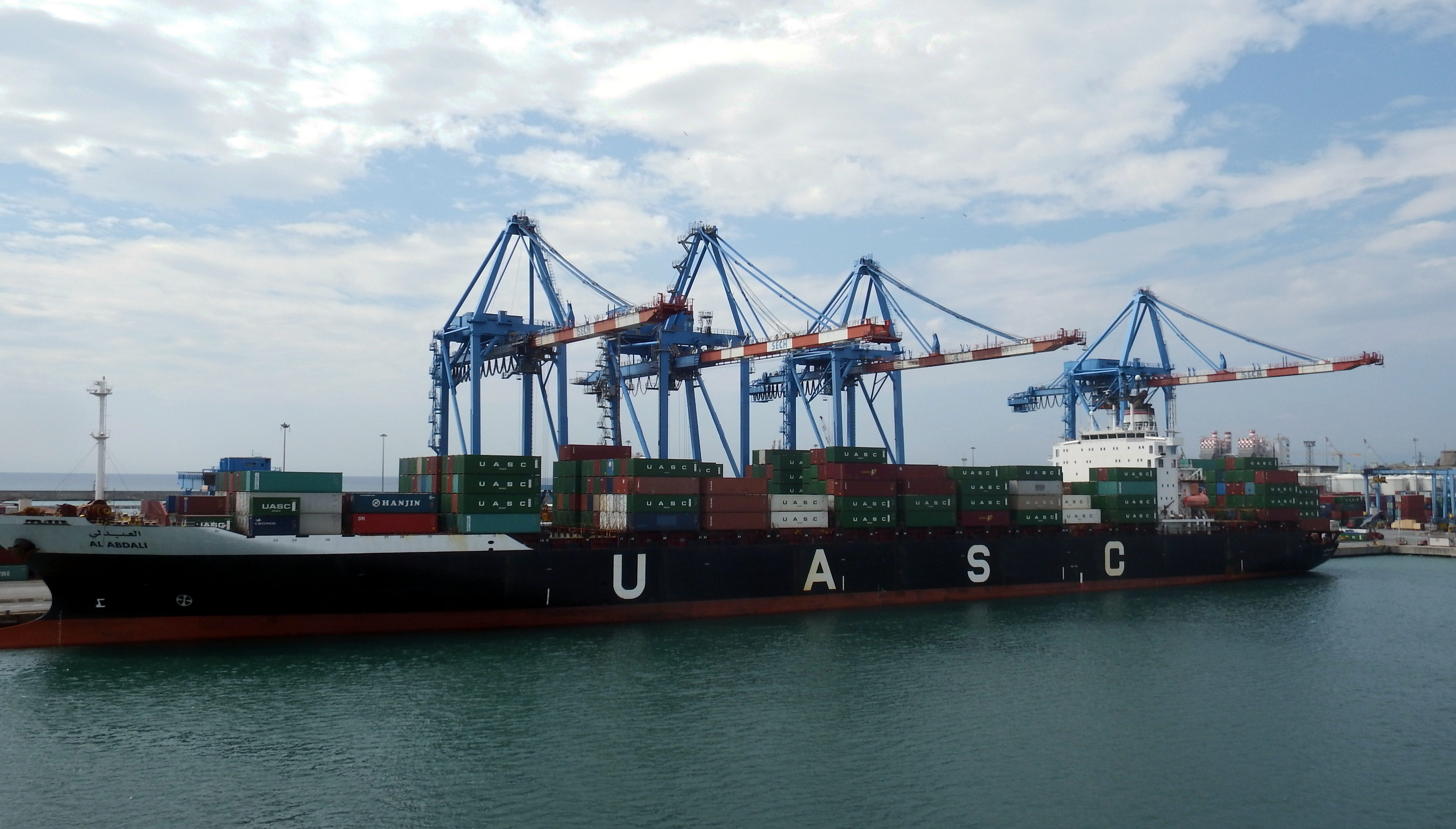 Container ship Al Abdali (IMO 9154543, call sign HZCP)